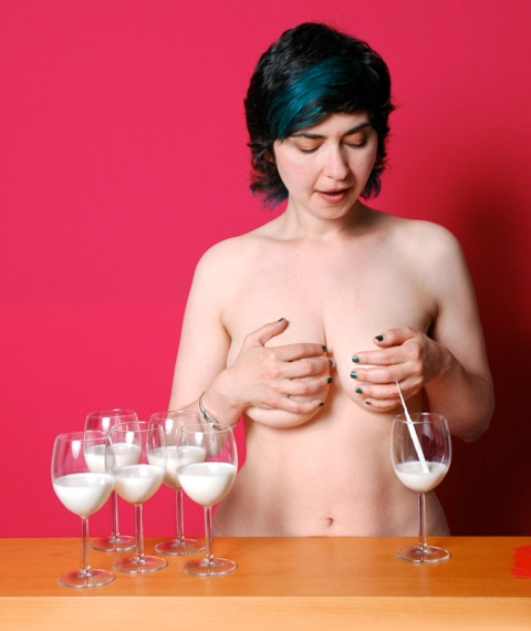 Promotional image for Jess Dobkin's Lactation Station performance, 2006.